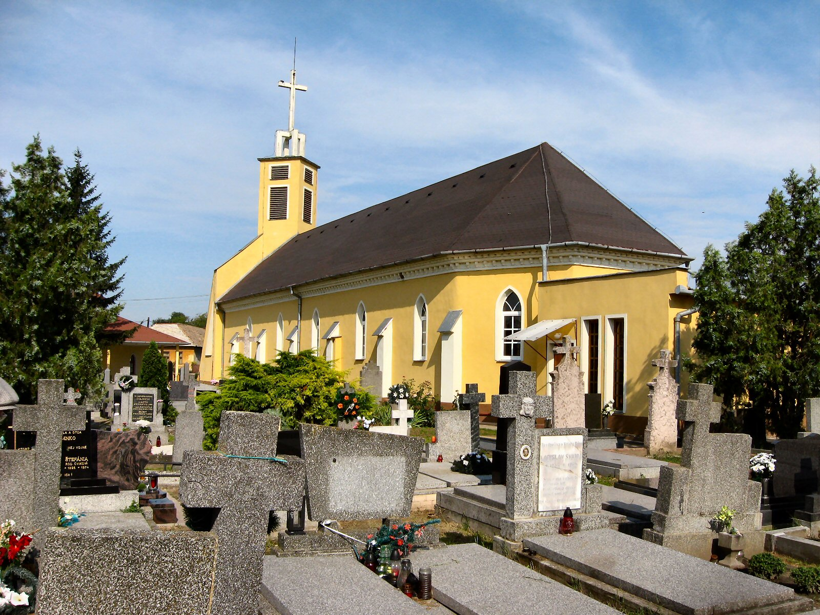 Church of St. Martin in Nitriansky Hrádok, quarter of Šurany, Slovakia.